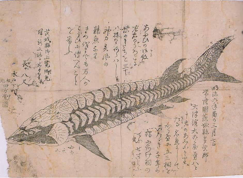 A cryptid of Japan,龍魚（Ryugyo）